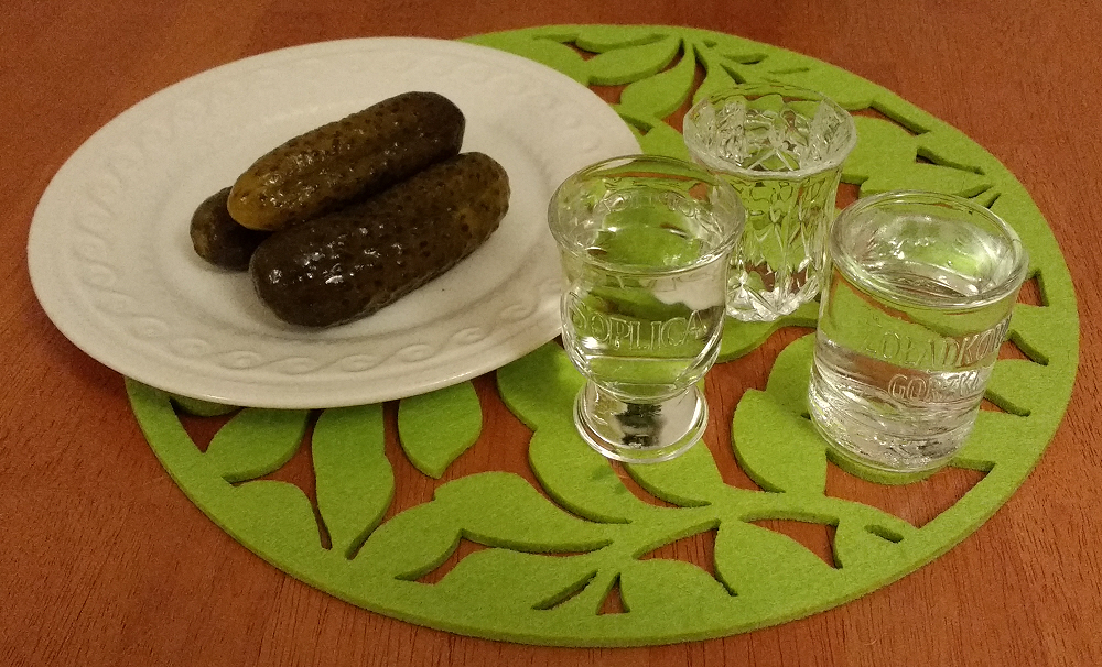 Clear vodka served with pickled cucumber - the usual way of consuming both in Poland, Russia, Ukraine and other Eastern European countries of the so-called vodka belt.